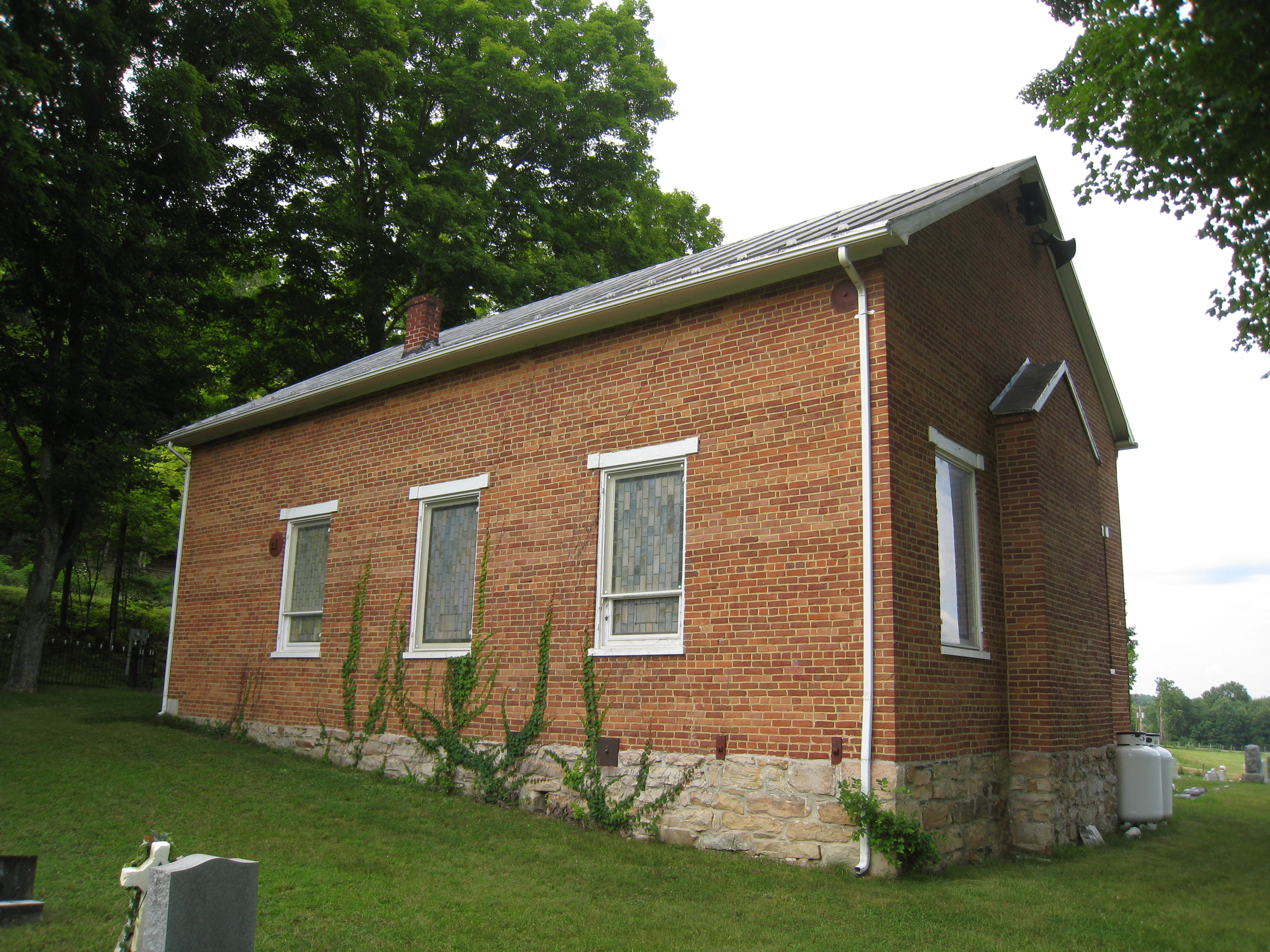 Old Hebron Lutheran Church along West Virginia Route 259 in Intermont, West Virginia, United States.